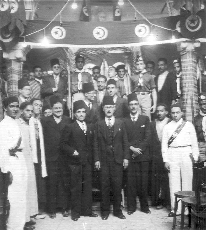 Neo-Destourian Congress